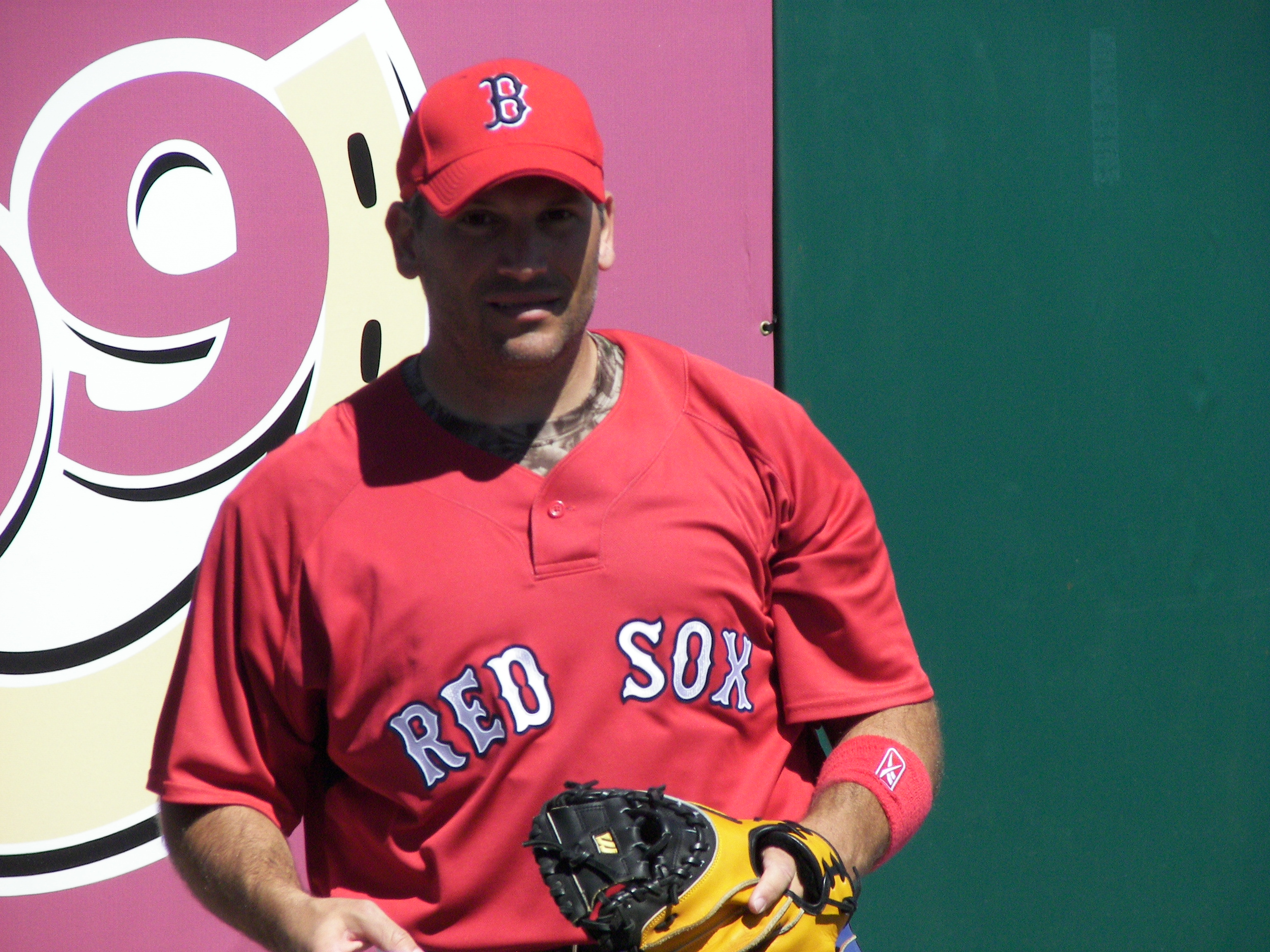 Boston Red Sox catcher Doug Mirabelli before the Red Sox' spring training game at City of Palms Park in Fort Myers, Florida.